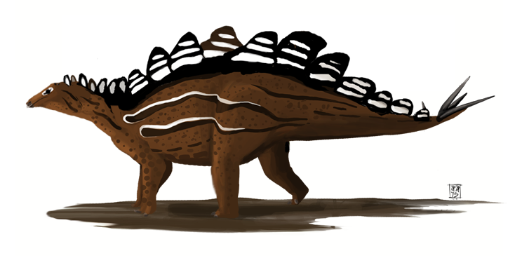 Life restoration of Stegosaurus stenops based on the "Sophie" specimen, NHMUK PV R36730. Digital.